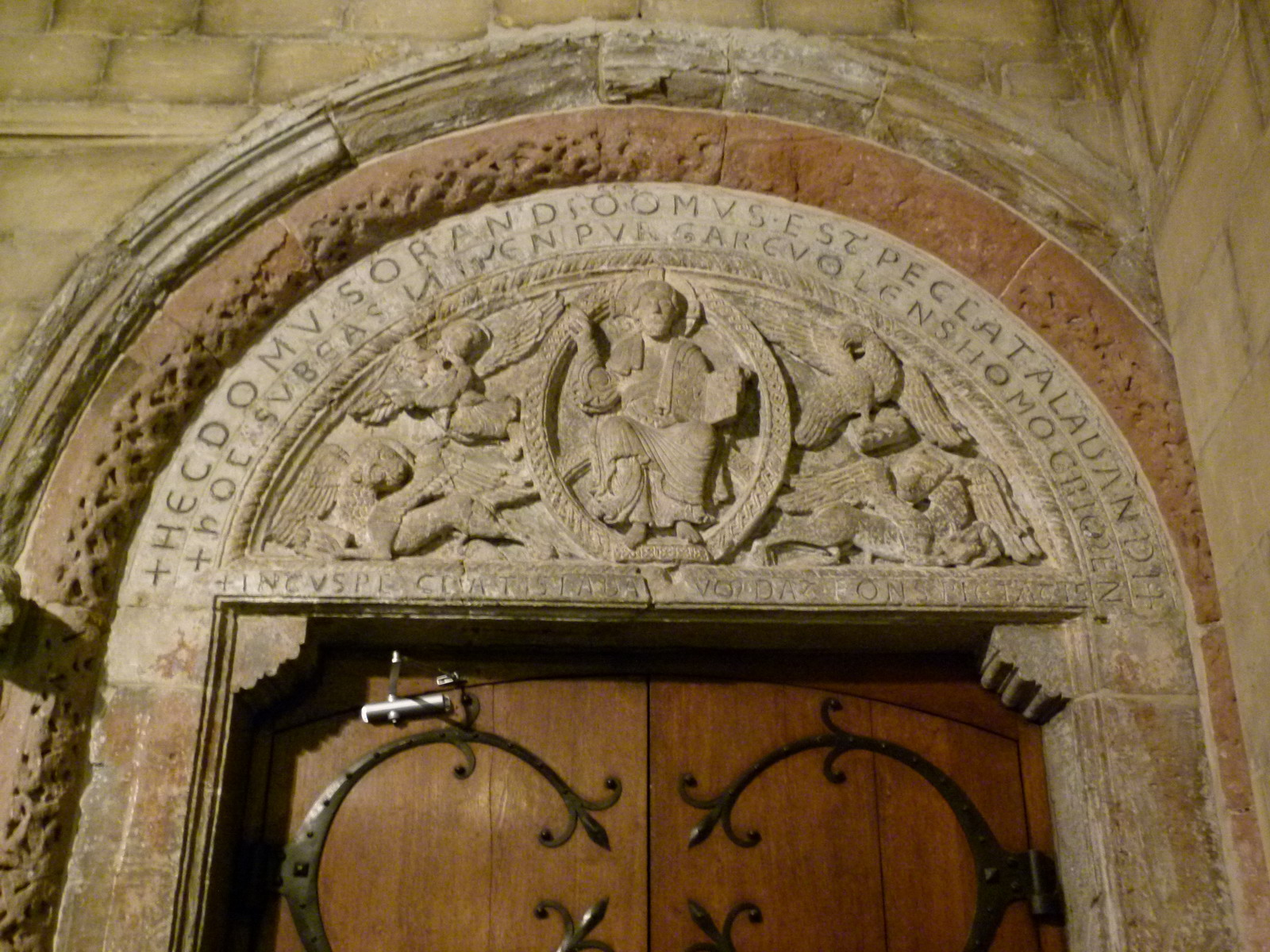 Maiestas Domini, Romanesque tympanum, originally above an East portal, currently above one of the North portals in the cloisters (12th c.). Basilica of Saint Servatius, Maastricht, the Netherlands.